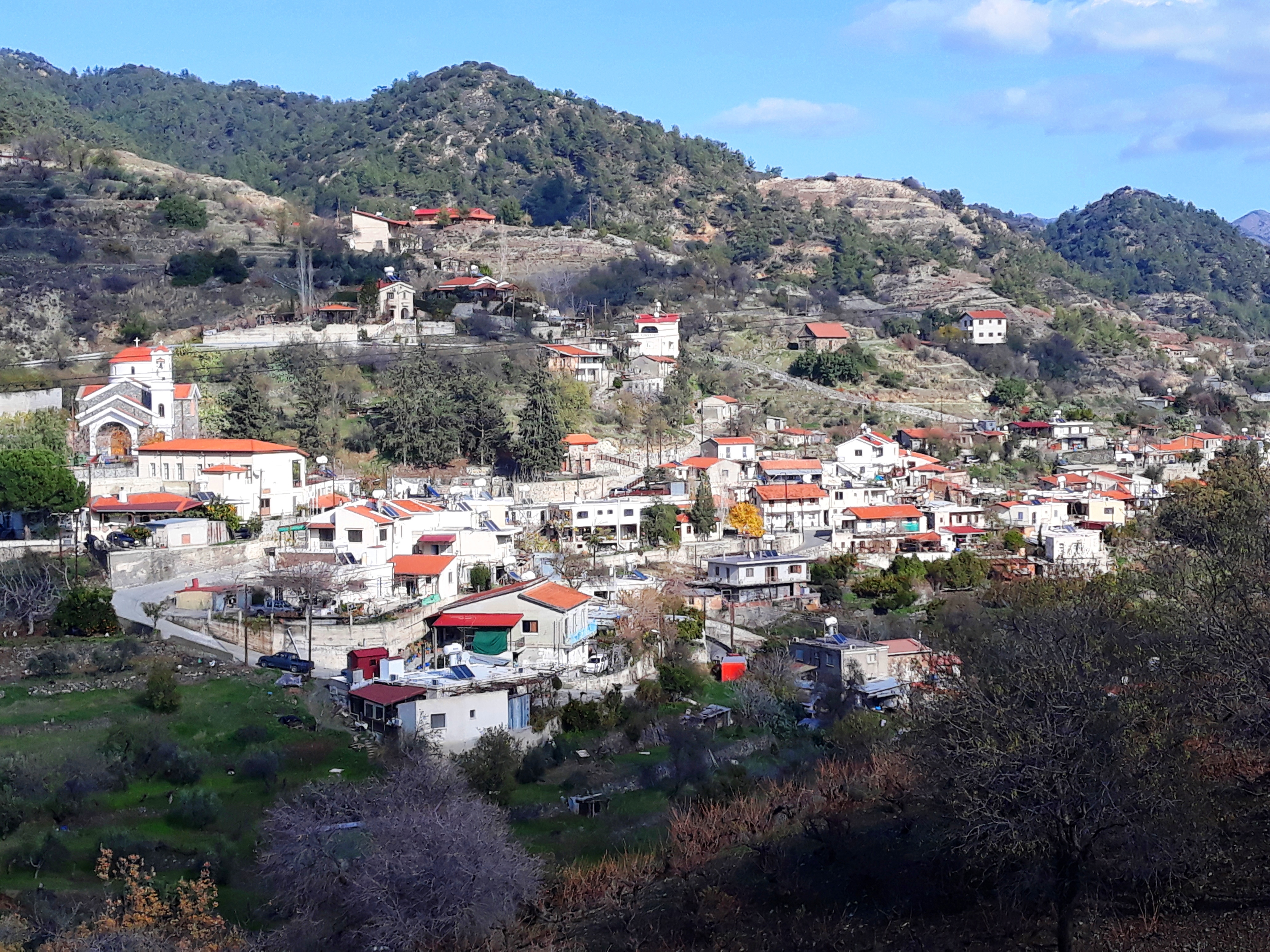 View of Agios Konstantinos, Cyprus.